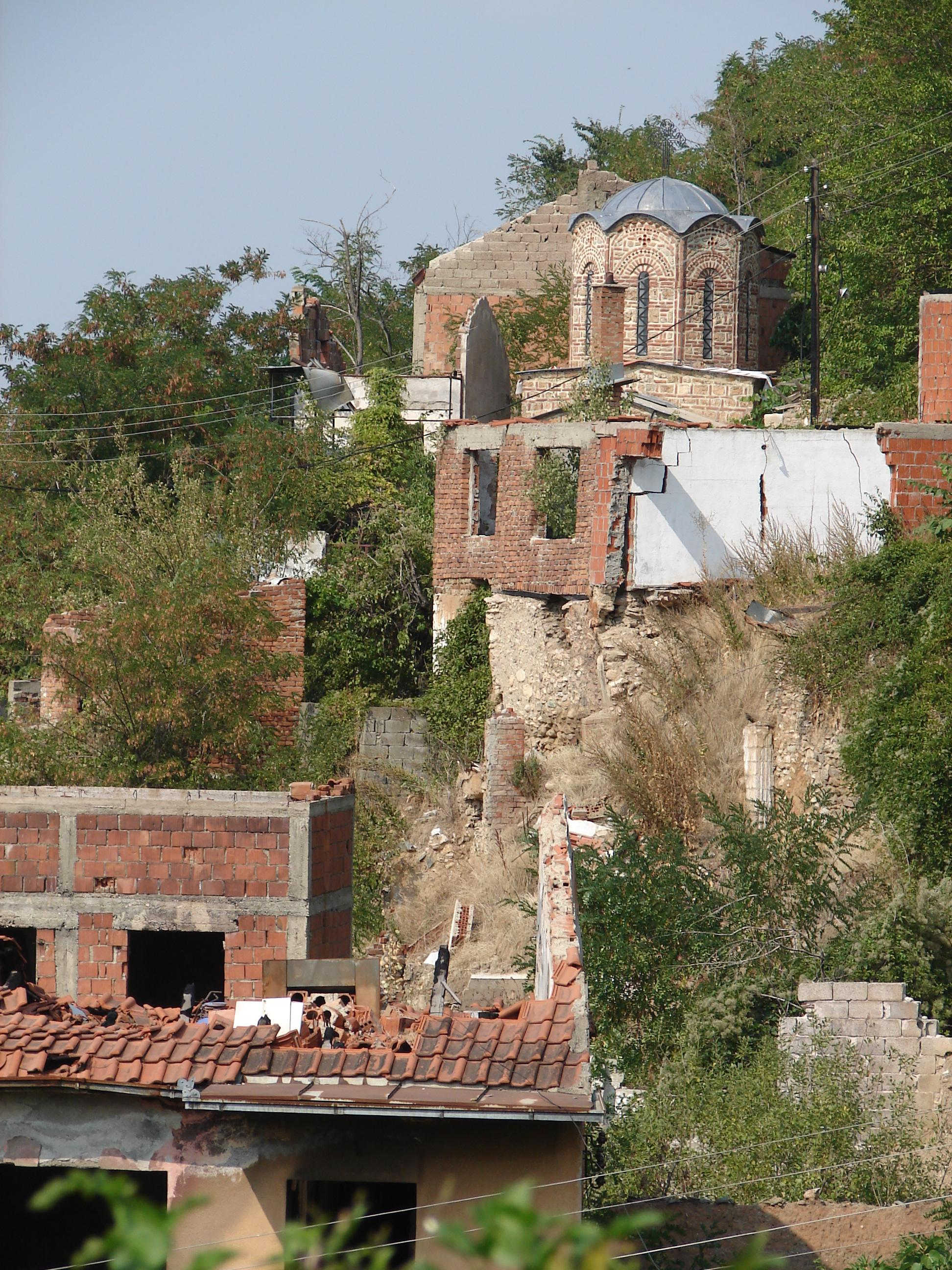 Serbian part of Prizren.